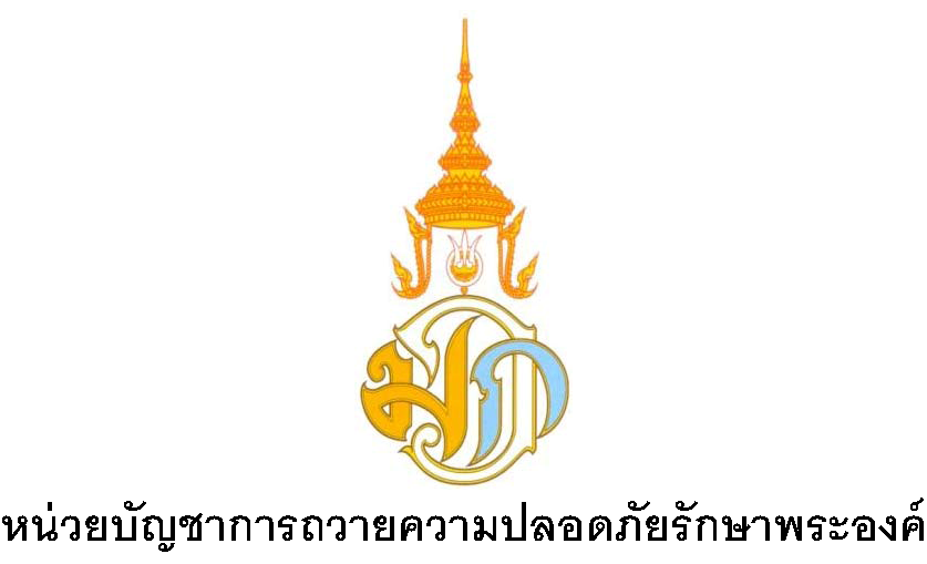 Symbol of the Royal Security Command, Ministry of Defense, Kingdom of Thailand.